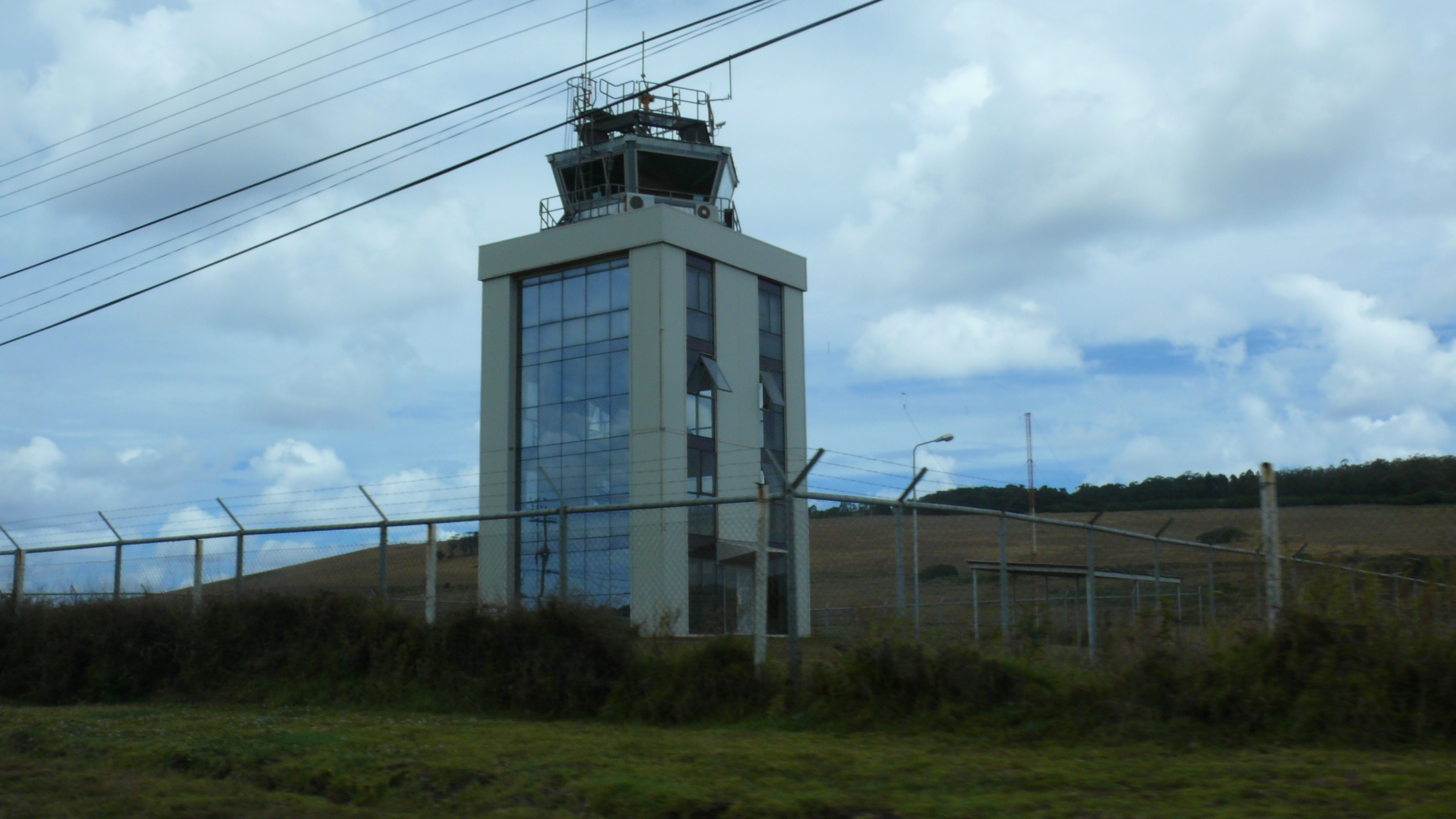 Mataveri International Airport, control tower for space shuttles